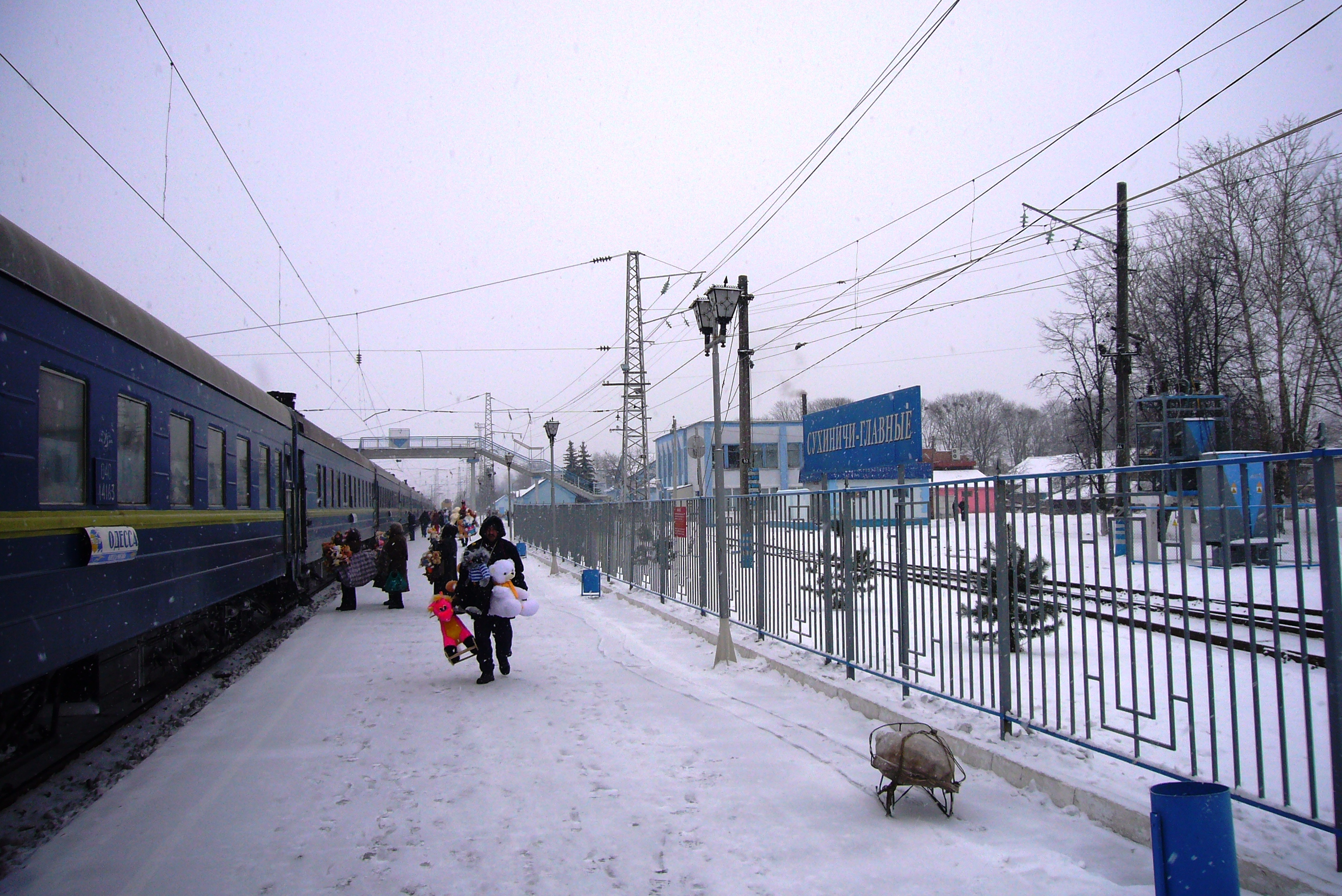 Main Sukhinichi Railway Station in winter, Kaluga Oblast, Russia.